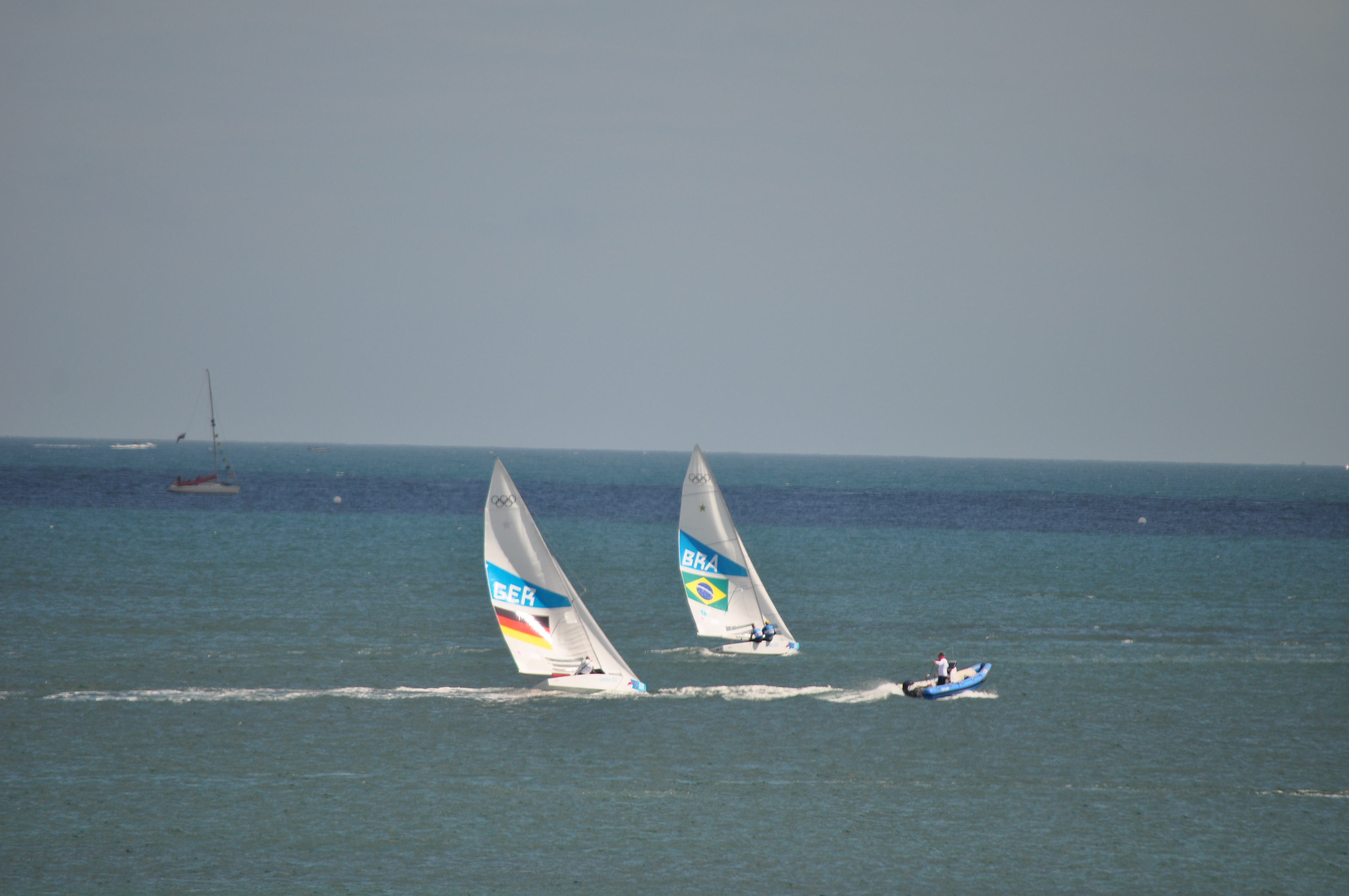 2012 Olympic games, Weymouth and Portland